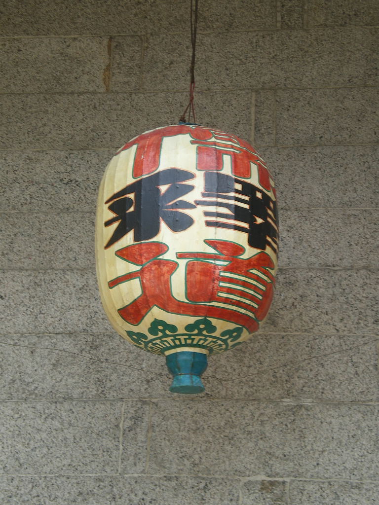 Sam Shing Temple Lamp